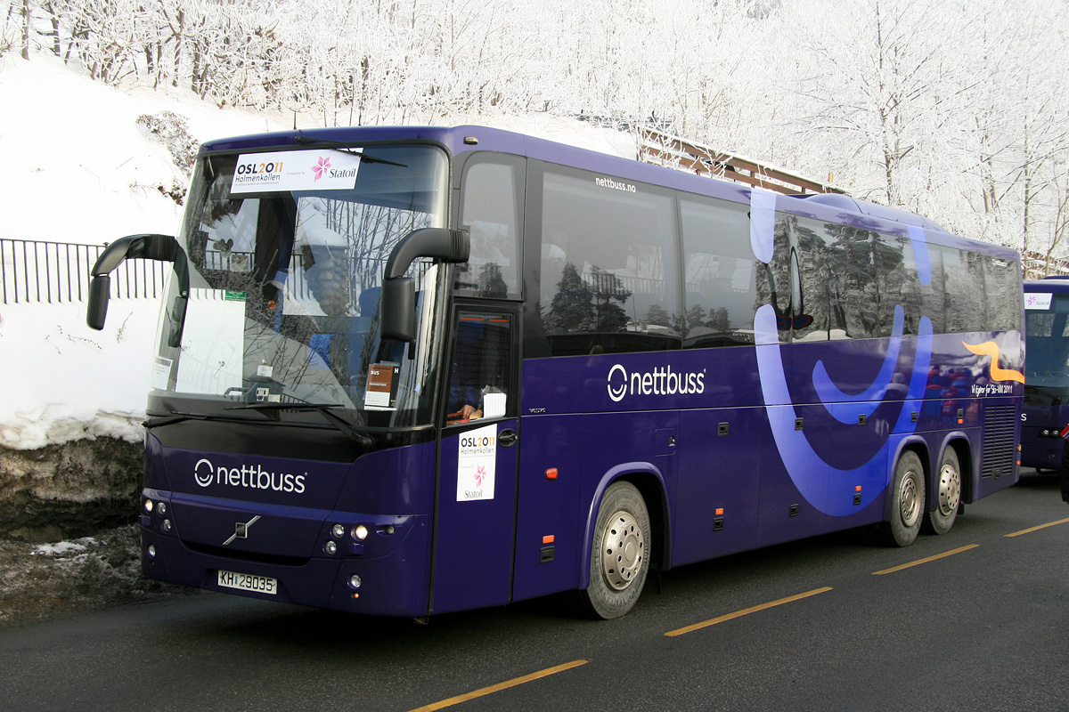 Nettbuss tourist coach at FIS Nordic World Ski Championships 2011.